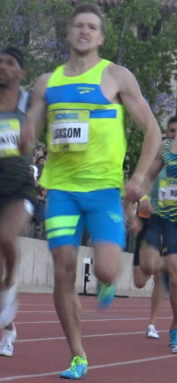 Casimir Loxsom at the 2016 Hoka One One Middle Distance Classic, at Occidental College, May 10, 2016